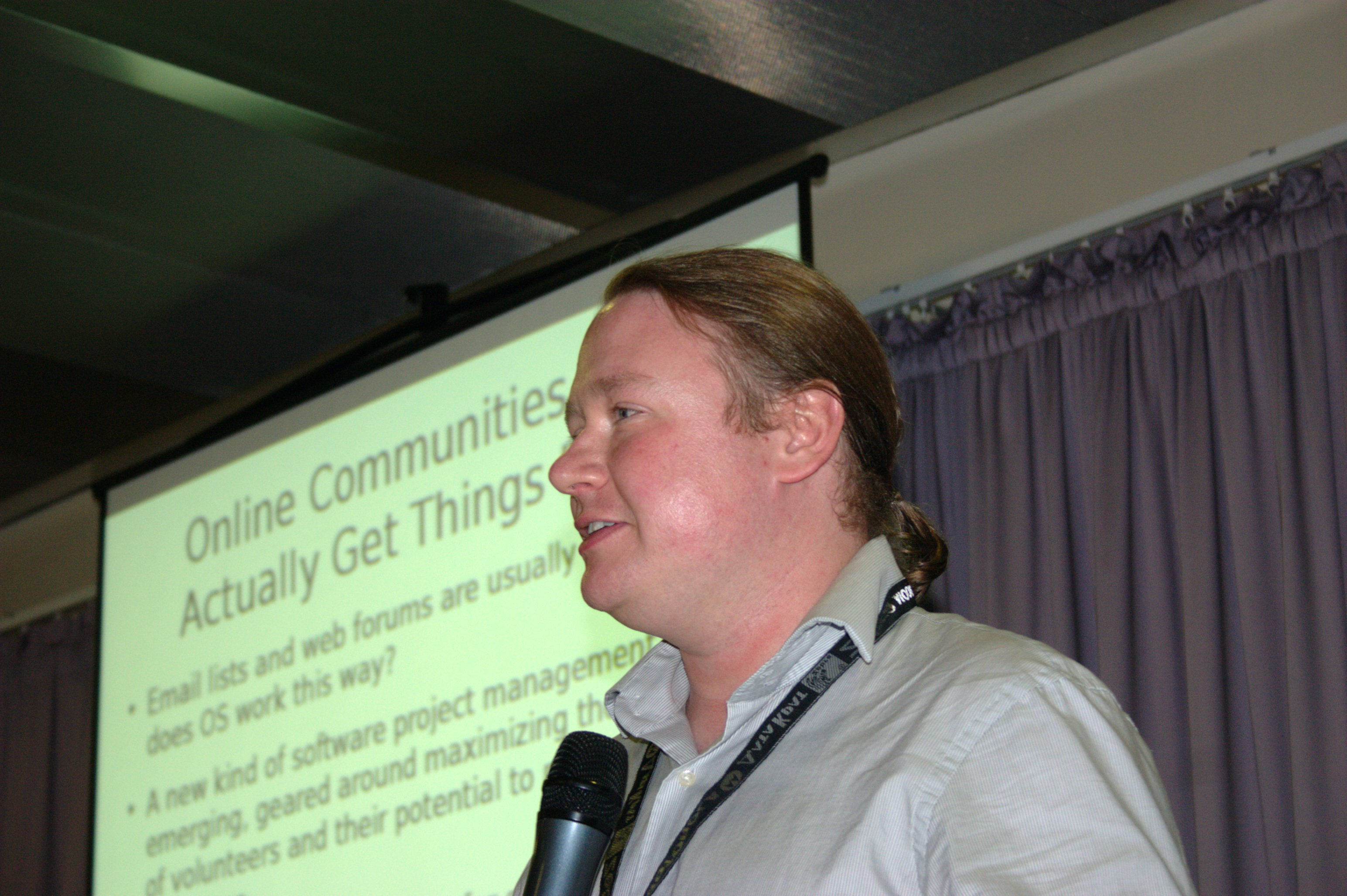 Brian Behlendorf (left) at INTEROP, Moscow, 2007.